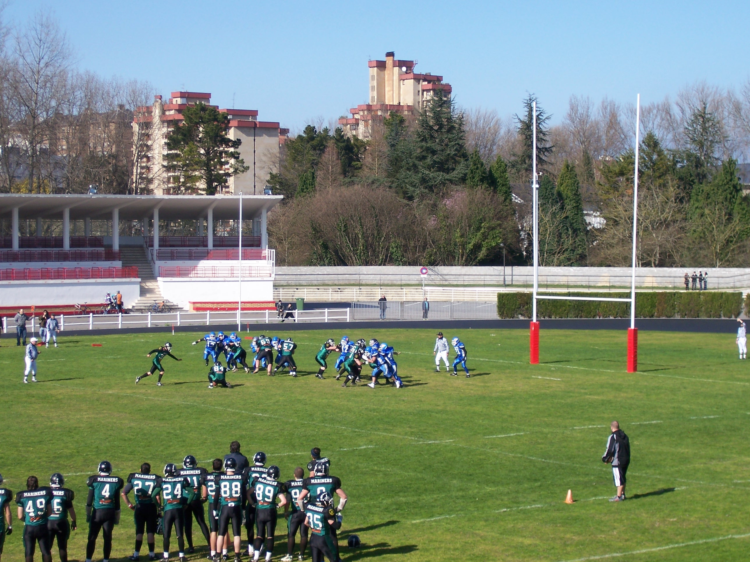 Sergi Güibas during a field goal attempt at a Mariners' game.